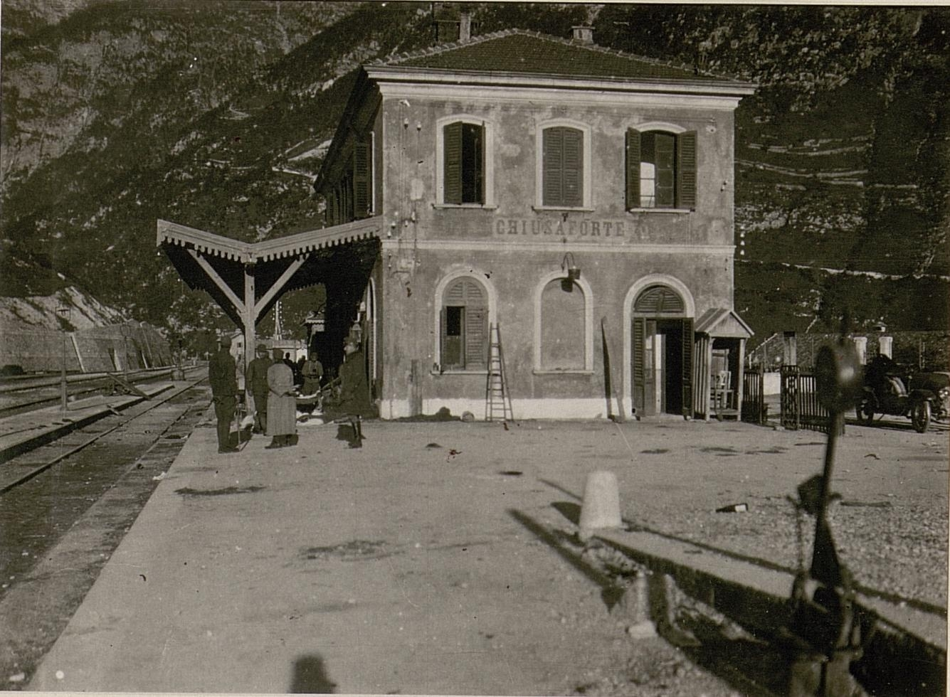 Bahnhof Chiusaforte.